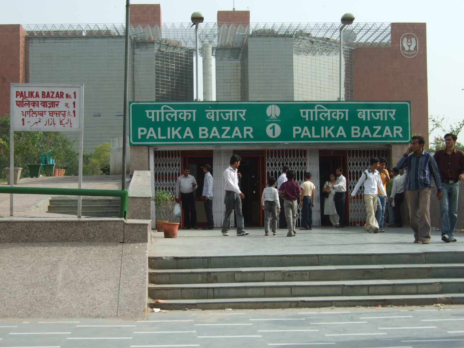 Entrance of Palika Bazar, Connaught Place, Delhi, with Jeevan Bharti, LIC building in the background.